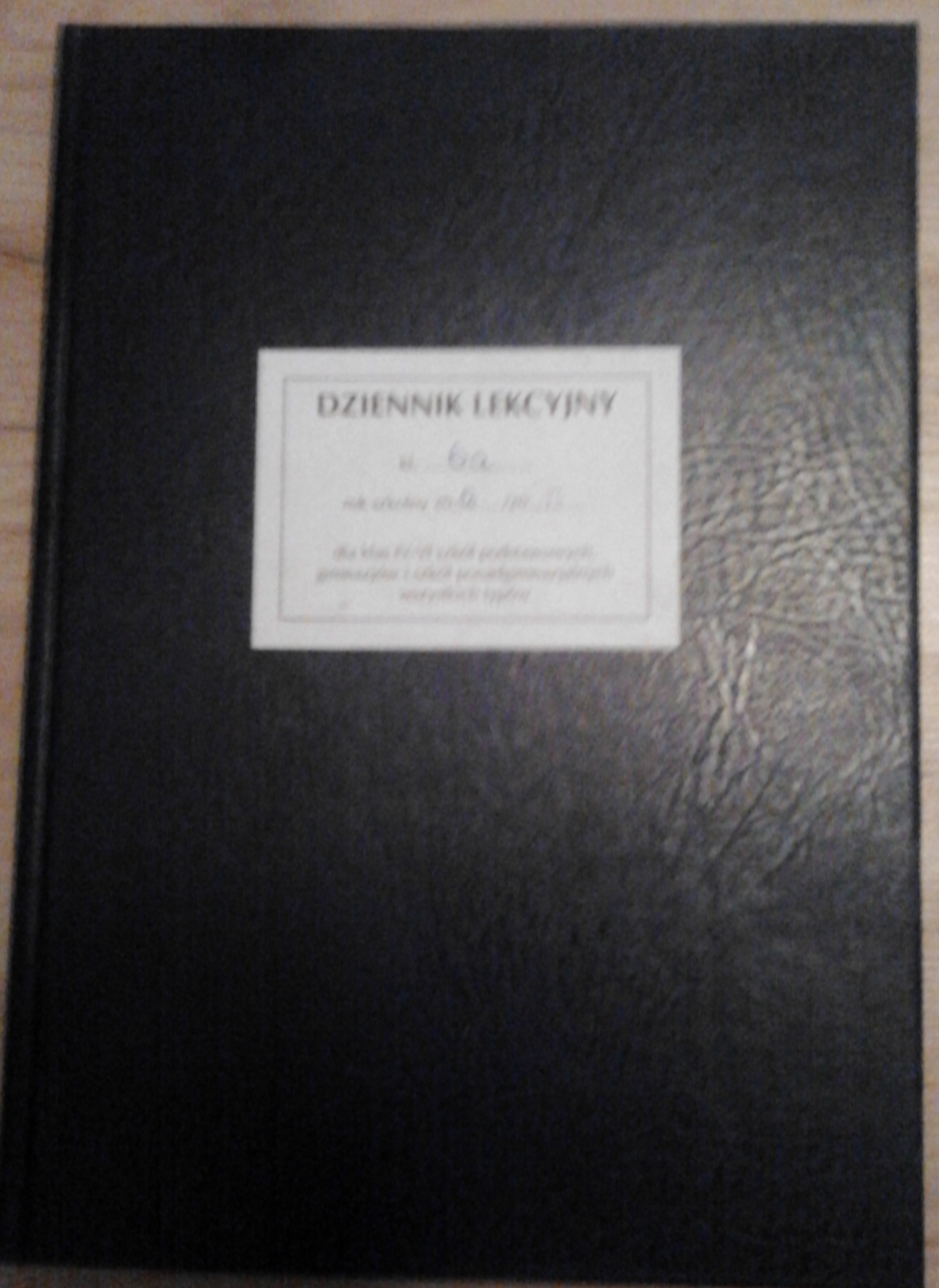 Class register